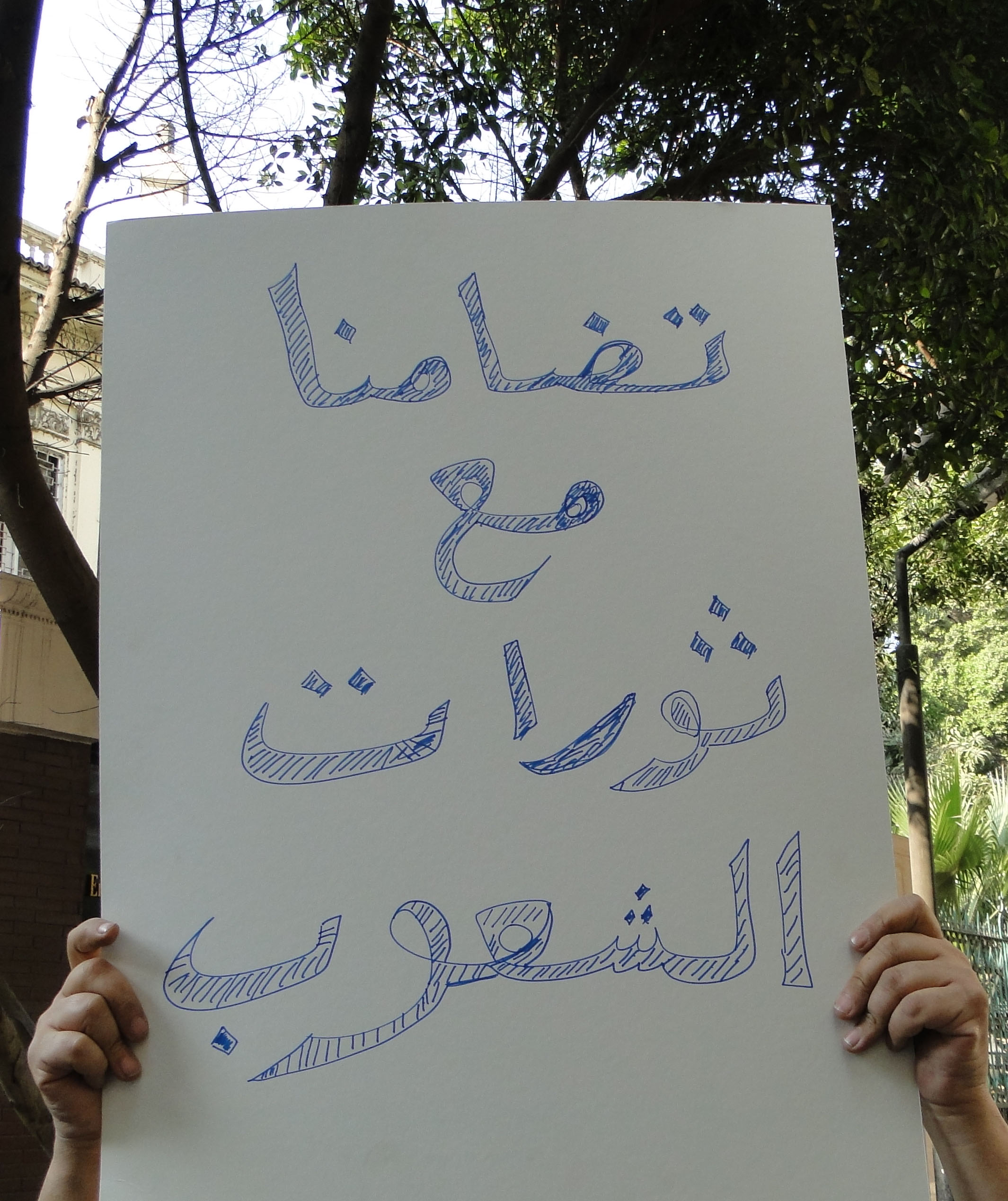 On February 17, Group of Egyptians Organized Stand in Solidarity with People of Algeria, Libya, Bahrain, Yemen, Jordan, Iran. The Banner Says: In Solidarity with People's Revolutions.